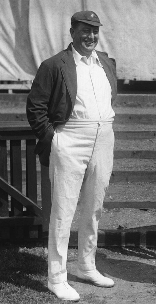 Warwick Armstrong, captain of the Australian cricket team in Leicester.